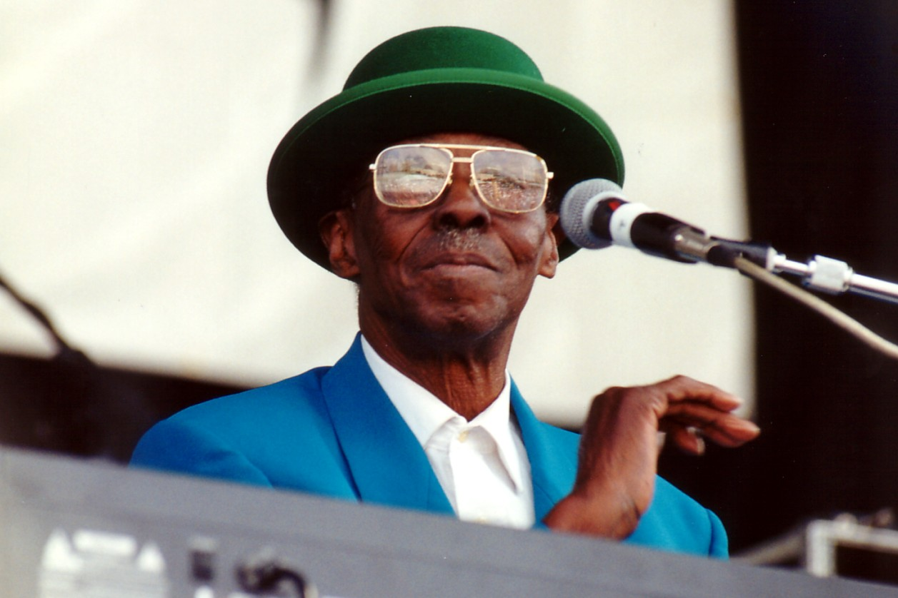 Taken at the Riverwalk Blues Festival in Fort Lauderdale.